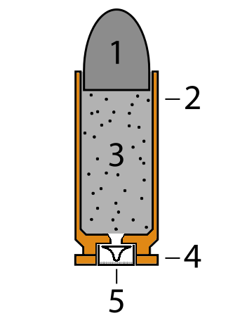 Diagram of typical "bullet" - more appropriately termed as a cartridge: #bullet #casing #gunpowder #rim #primer